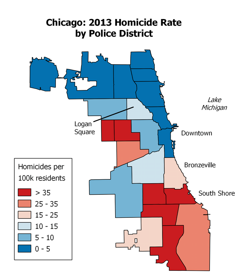 homicide map